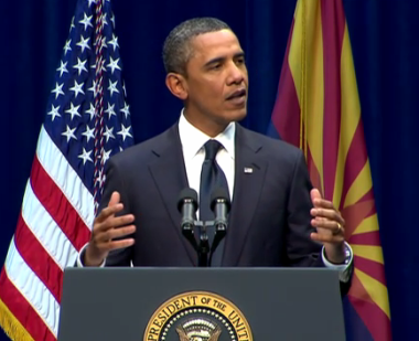 President Obama in Tucson: "The Forces that Divide Us are Not as Strong as Those that Unite Us"